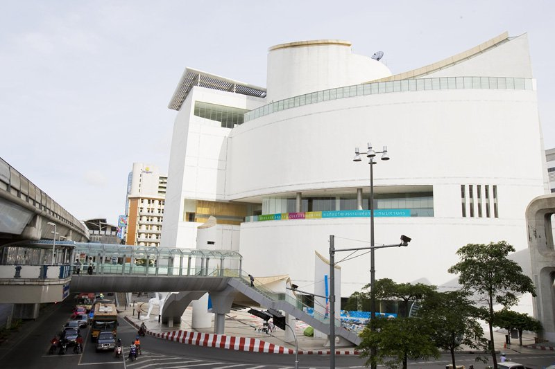 Building of Bangkok Art and Culture Centre at Phatumwan junction